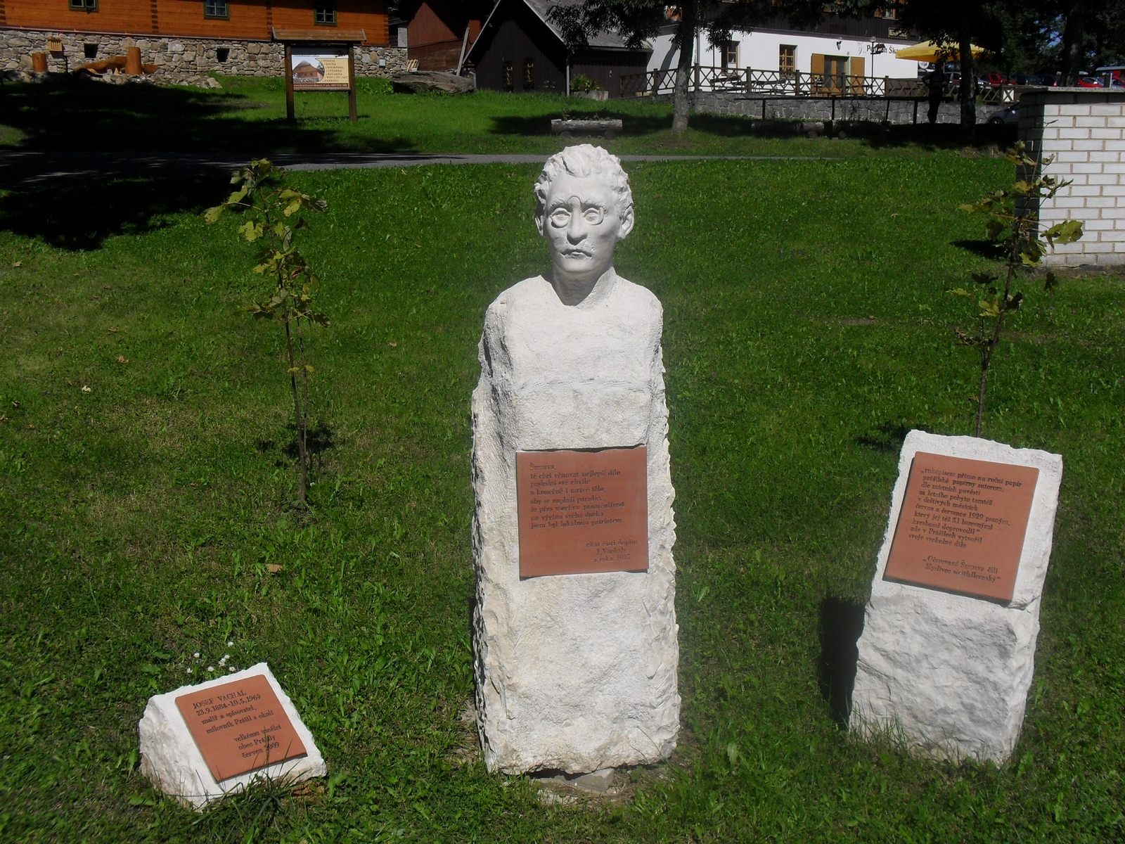 Memorial of Josef Váchal in czech village Prášily